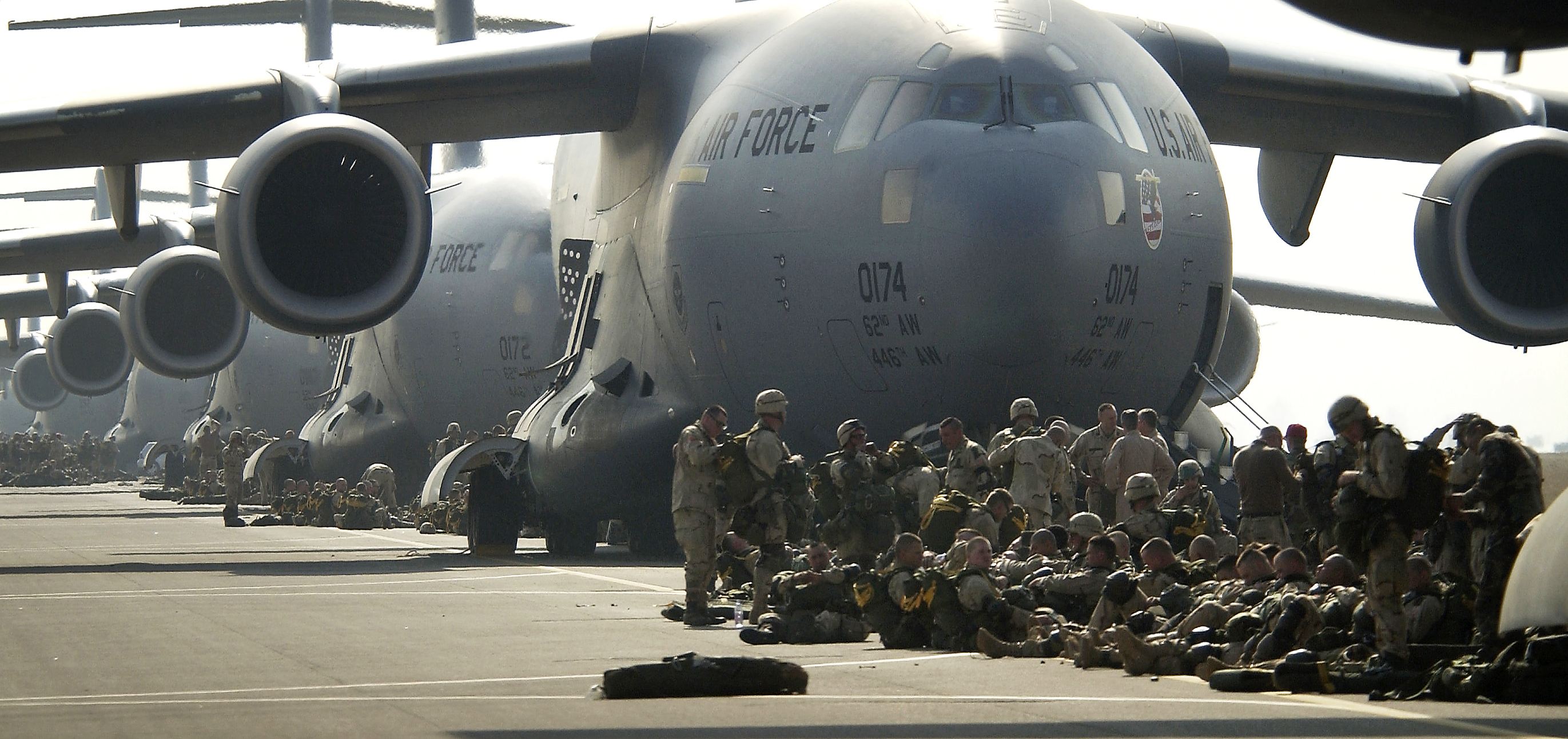 OPERATION IRAQI FREEDOM -- U.S. Army paratroopers prepare to board a C-17 Globemaster III. Nearly 1,000 "Sky Soldiers" of the 173rd Airborne Brigade recently parachuted from C-17s into the Kurdish-controlled area of northern Iraq. This was the first combat insertion of paratroopers using a C-17. U.S. Air Force Tactical Air Controllers along with an Air Force Contingency Response Group were also part of the troop movement in support of Operation Iraqi Freedom. (U.S. Air Force photo by Tech. Sgt. Stephen Faulisi)